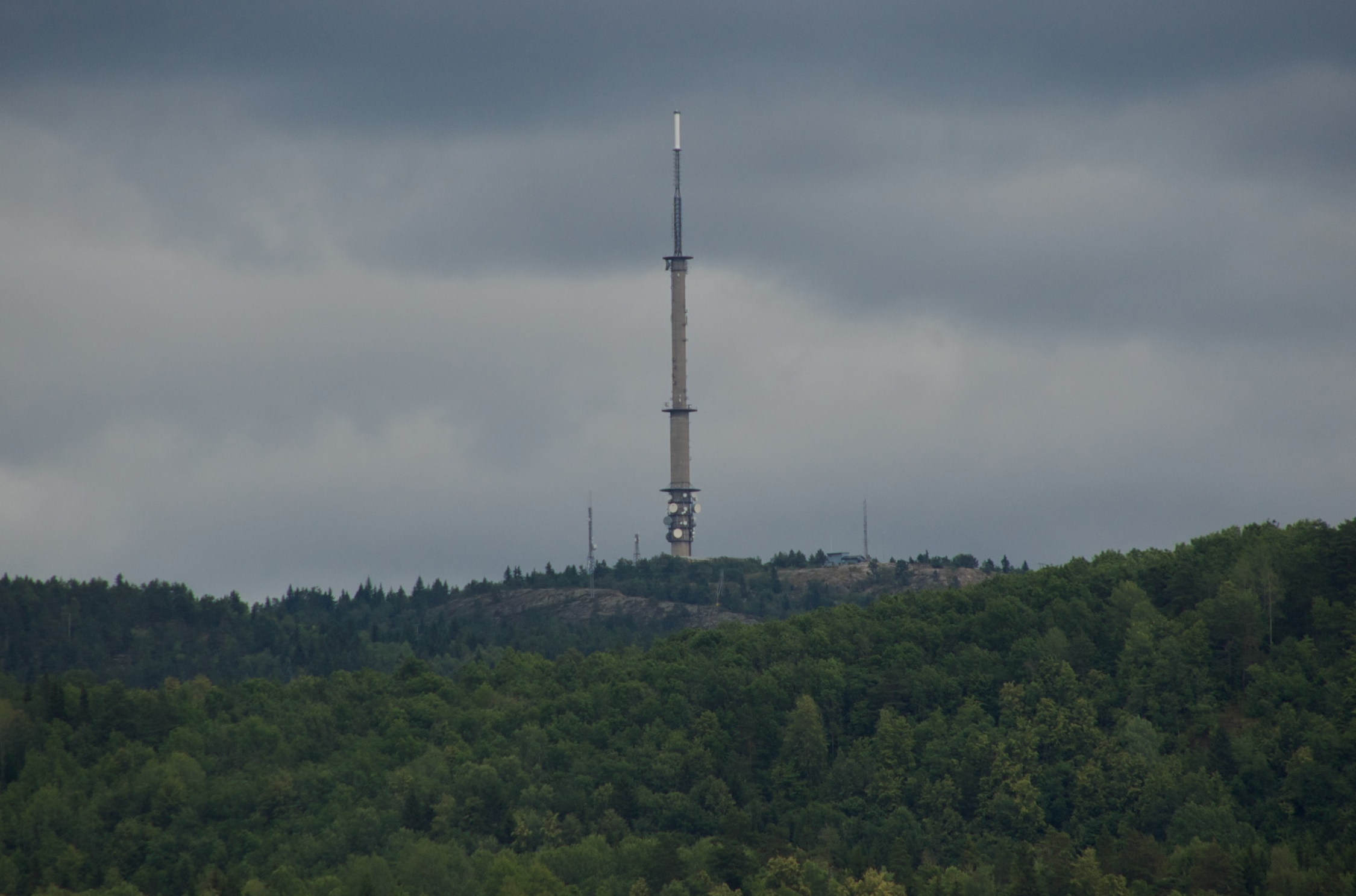 Western Vealøs, landscape in Skien, Norway.